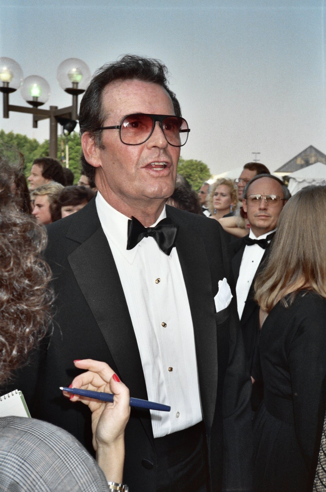 James Garner at the 39th Emmy Awards - Sept. 1987